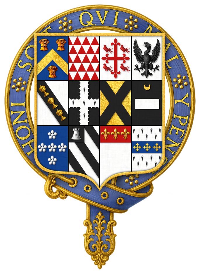 Coat of arms of Sir Christopher Hatton, KG